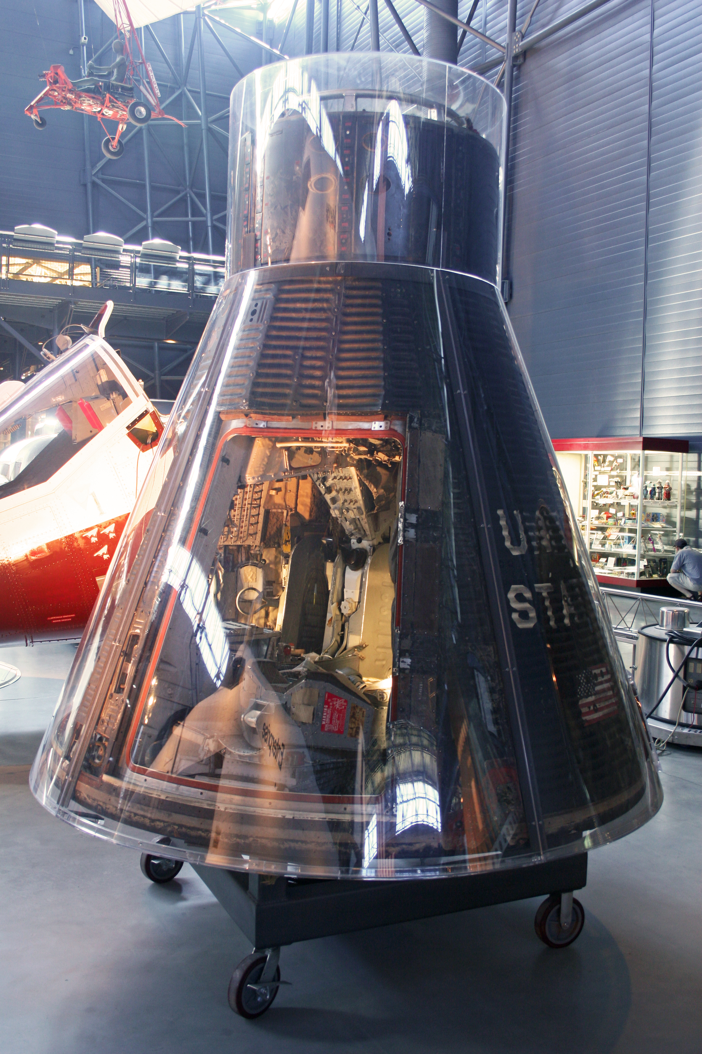 Gemini 7 spacecraft on display at the Steven F. Udvar-Hazy Center in Chantilly, Virginia.